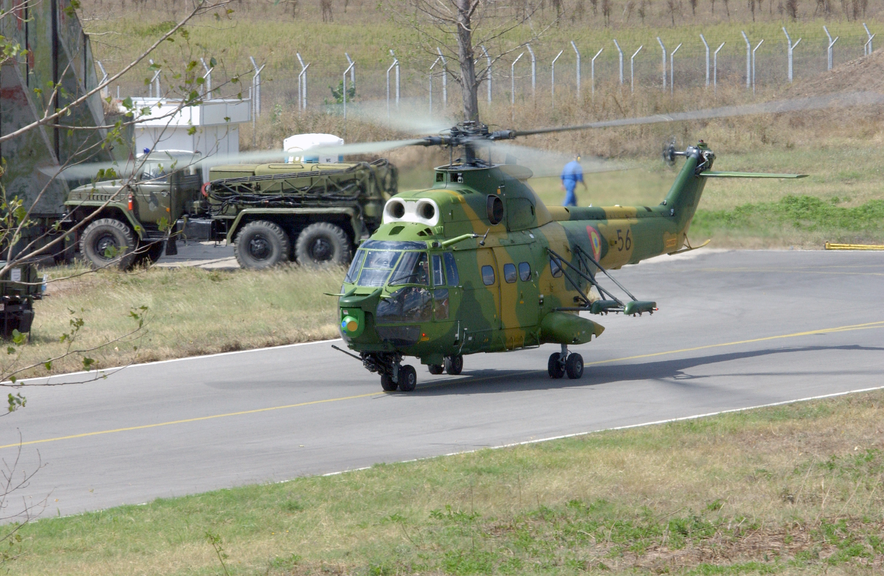 A Puma helicopter from Romania (ROM), taxis for take-off at the start of training operations in support of exercise Cooperative Key 2003 at Graf Ignatievo Air Base (AB), Bulgaria (BGR).